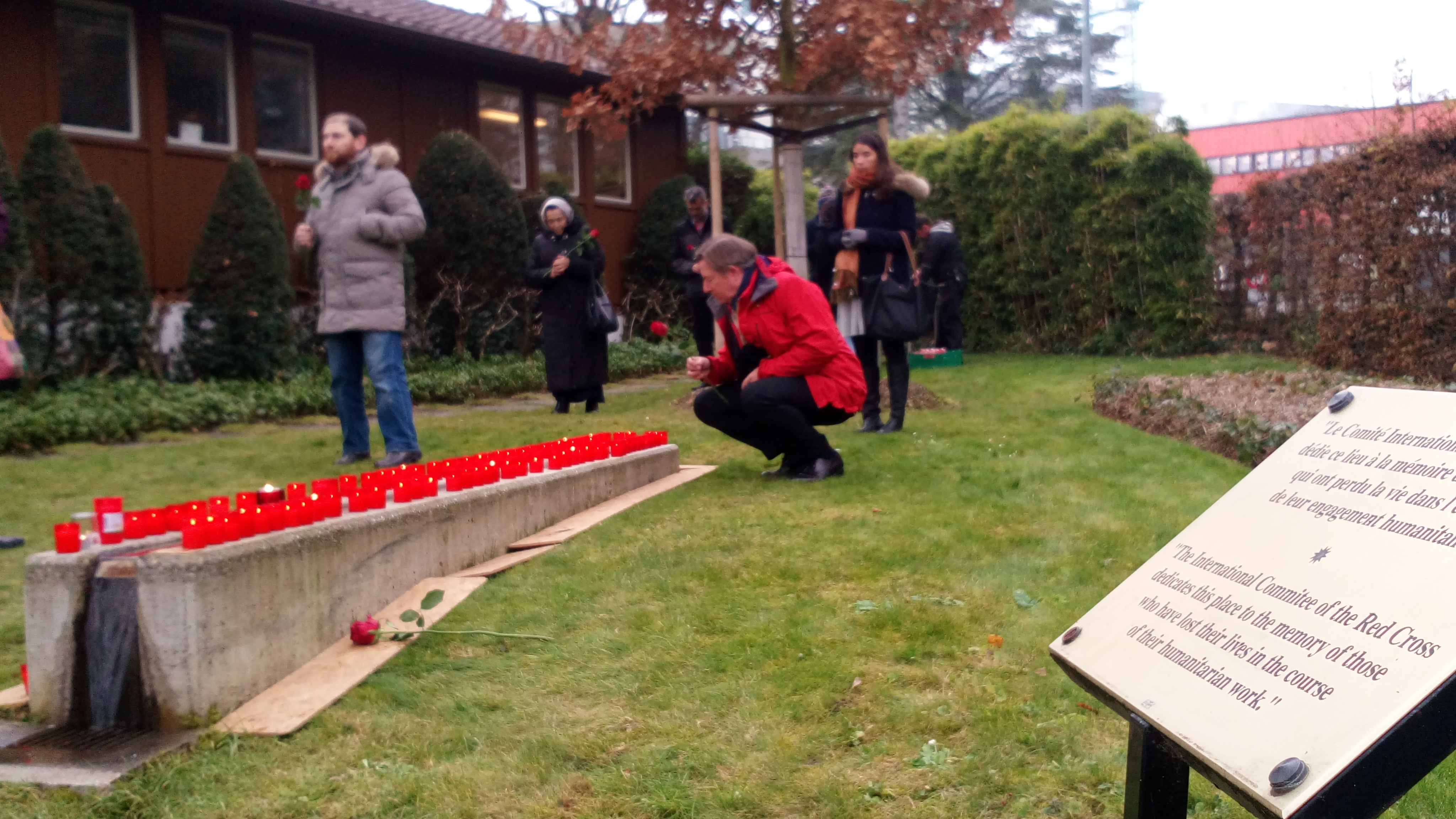 Yearly memorial day for the humanitrian staff killed or wounded in action. Candles lighting at the Memorial Garden, ICRC HQ. Geneva. Dec. 16th 2016.